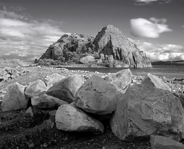 Dumbarton Rocks Dumbarton Rock, with its castle, seen over huge rocks that were put in to raise the level of the shore along the River Clyde. They are now smoothed over with finer material.